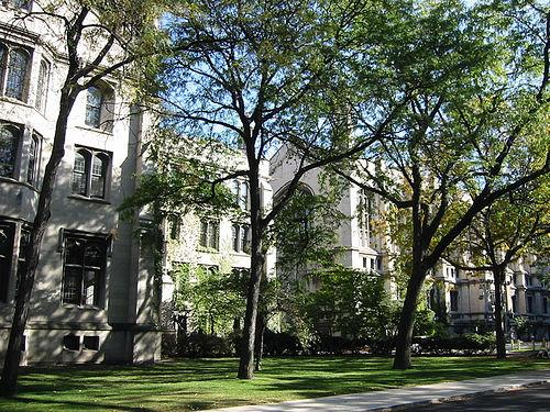 College of the University of Chicago